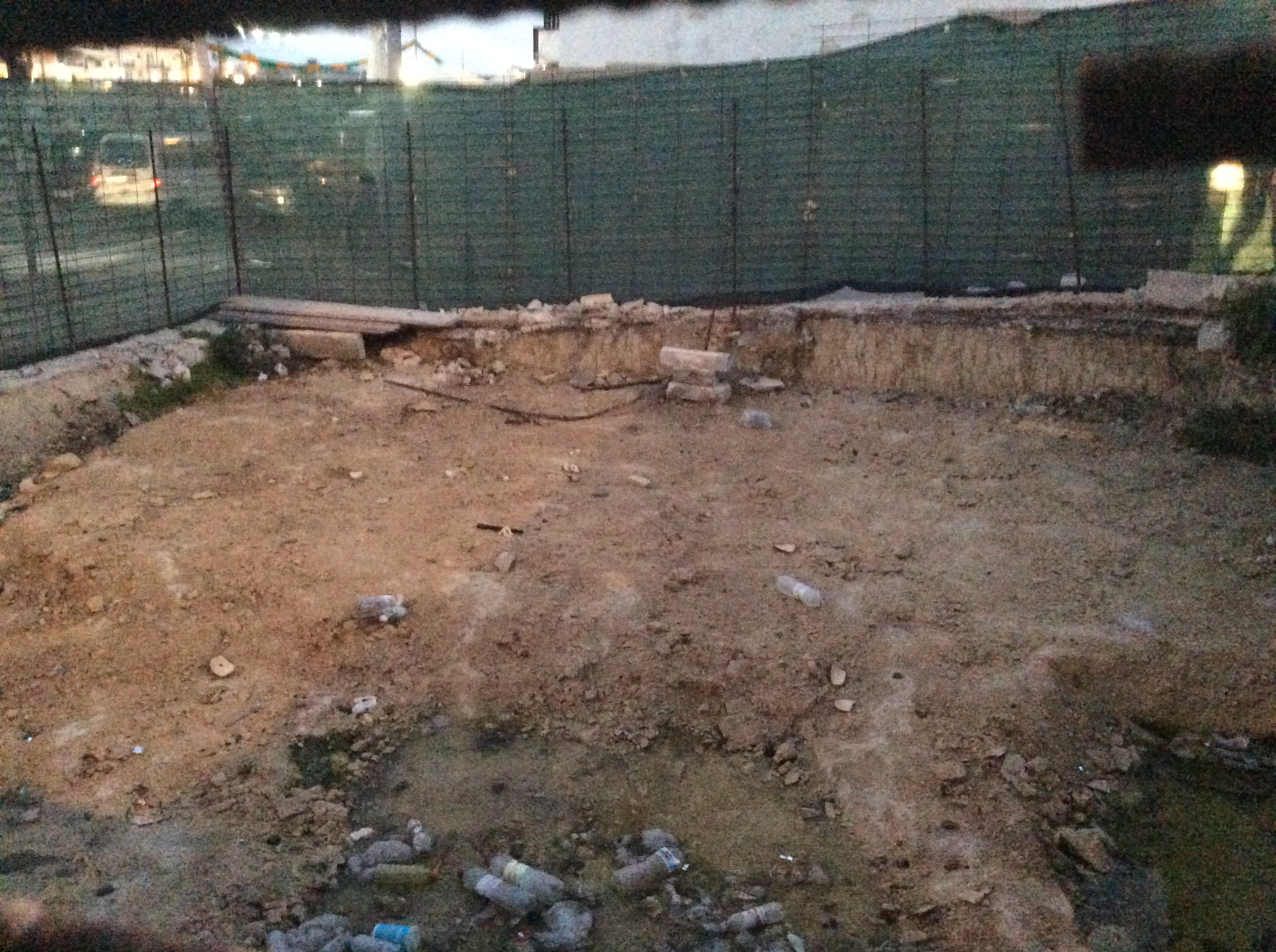 3, Triq ix-Xatt